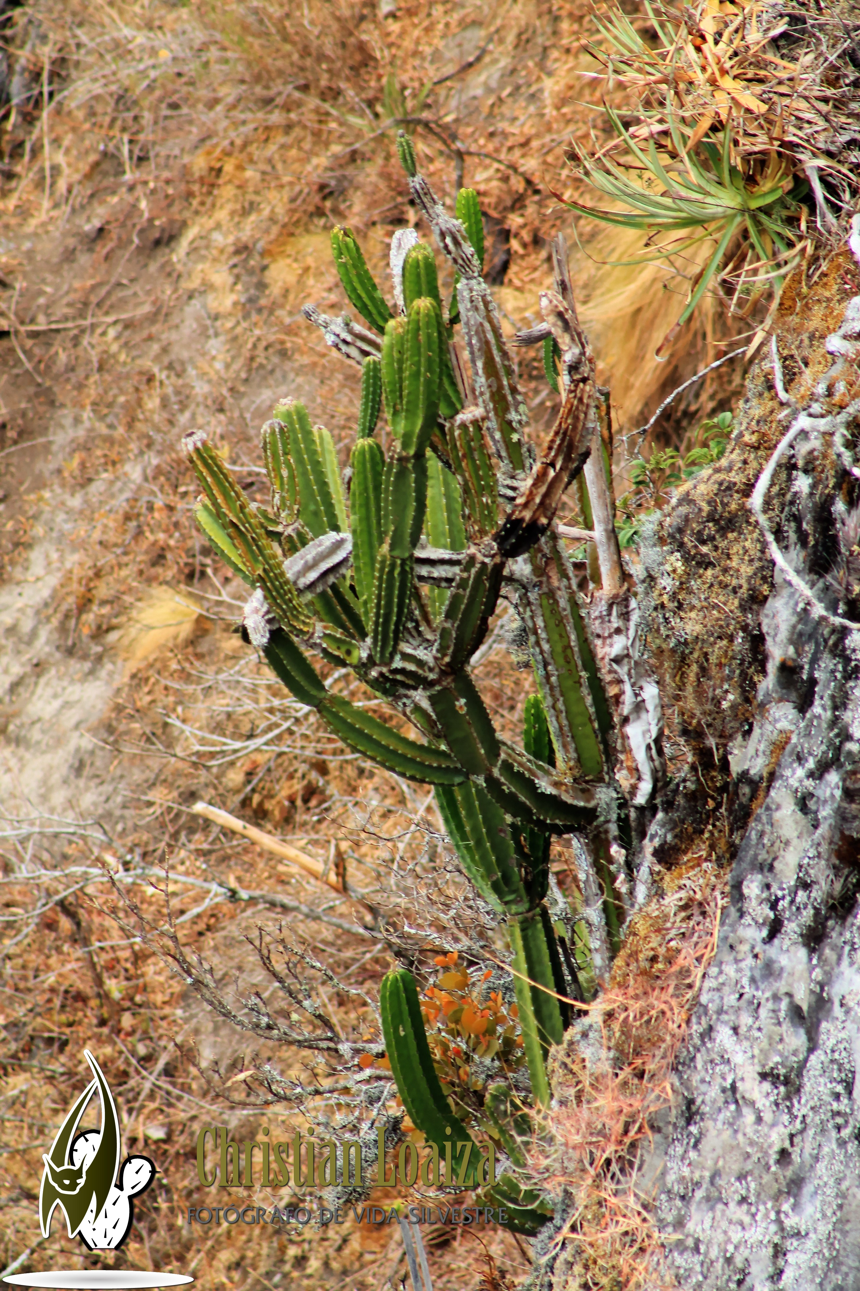 Smaller cardon of the Loja province